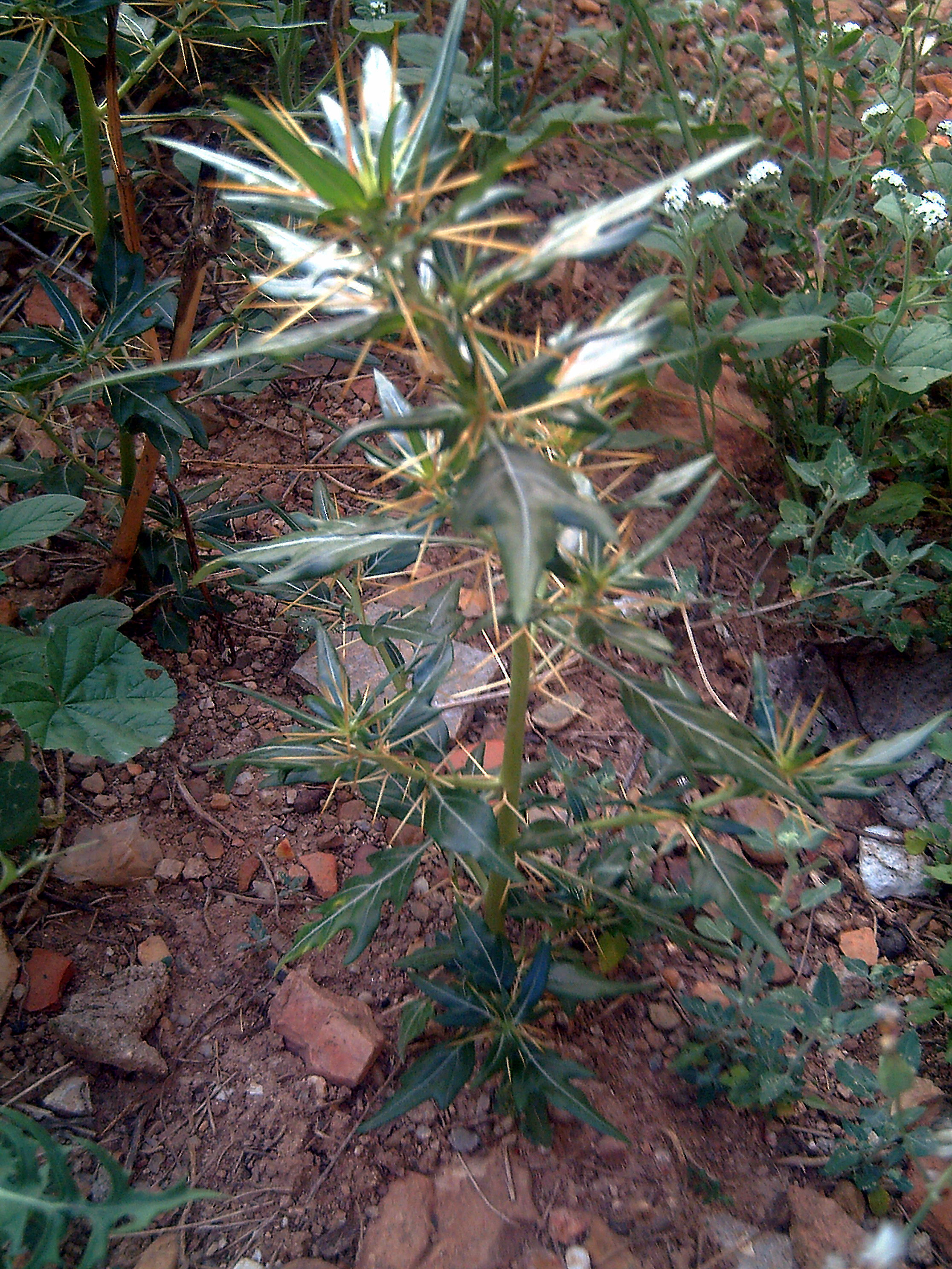 Xanthium spinosum plant , in Solana del Pino, Sierra Madrona, Spain